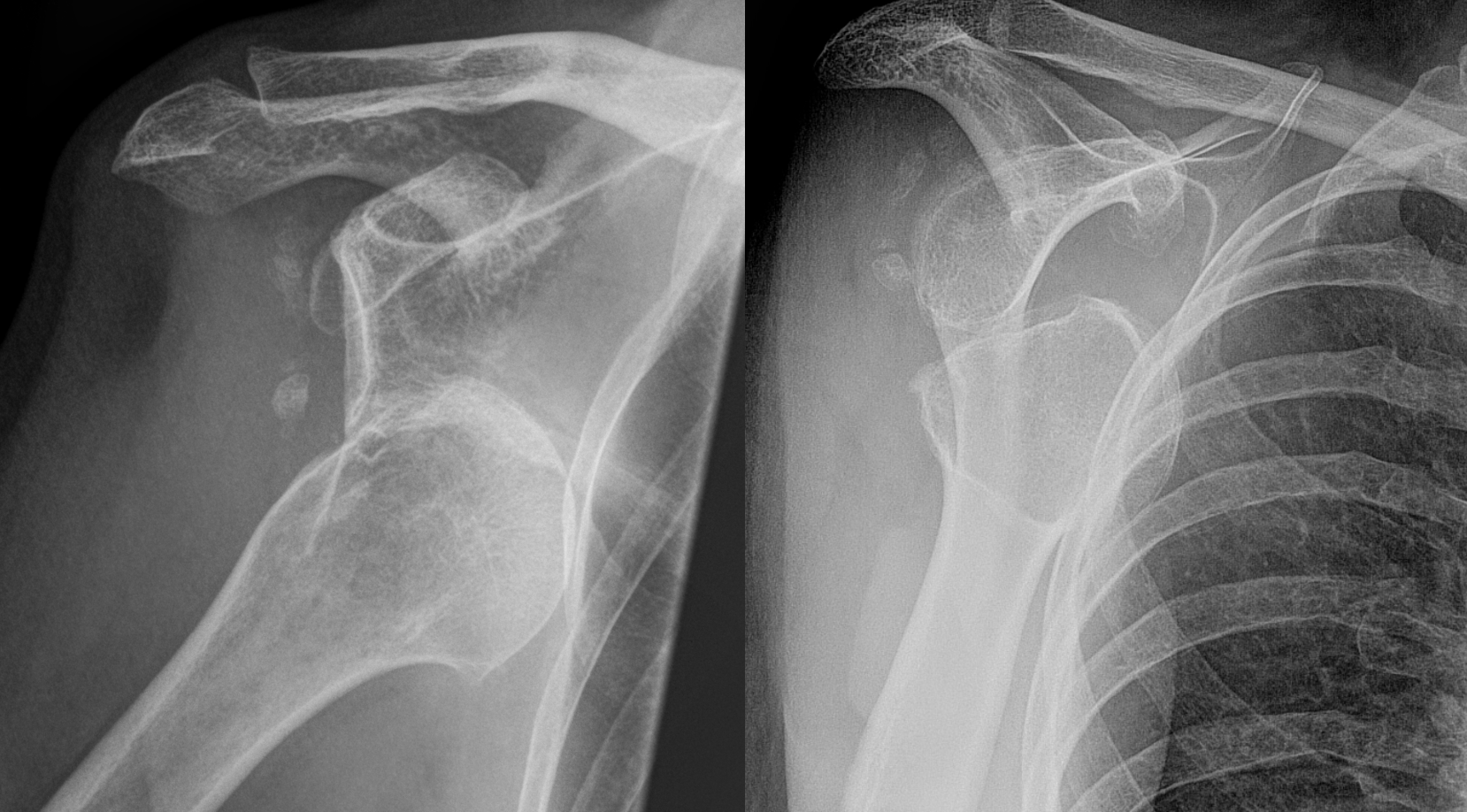 Dislocated shoulder in X-ray.